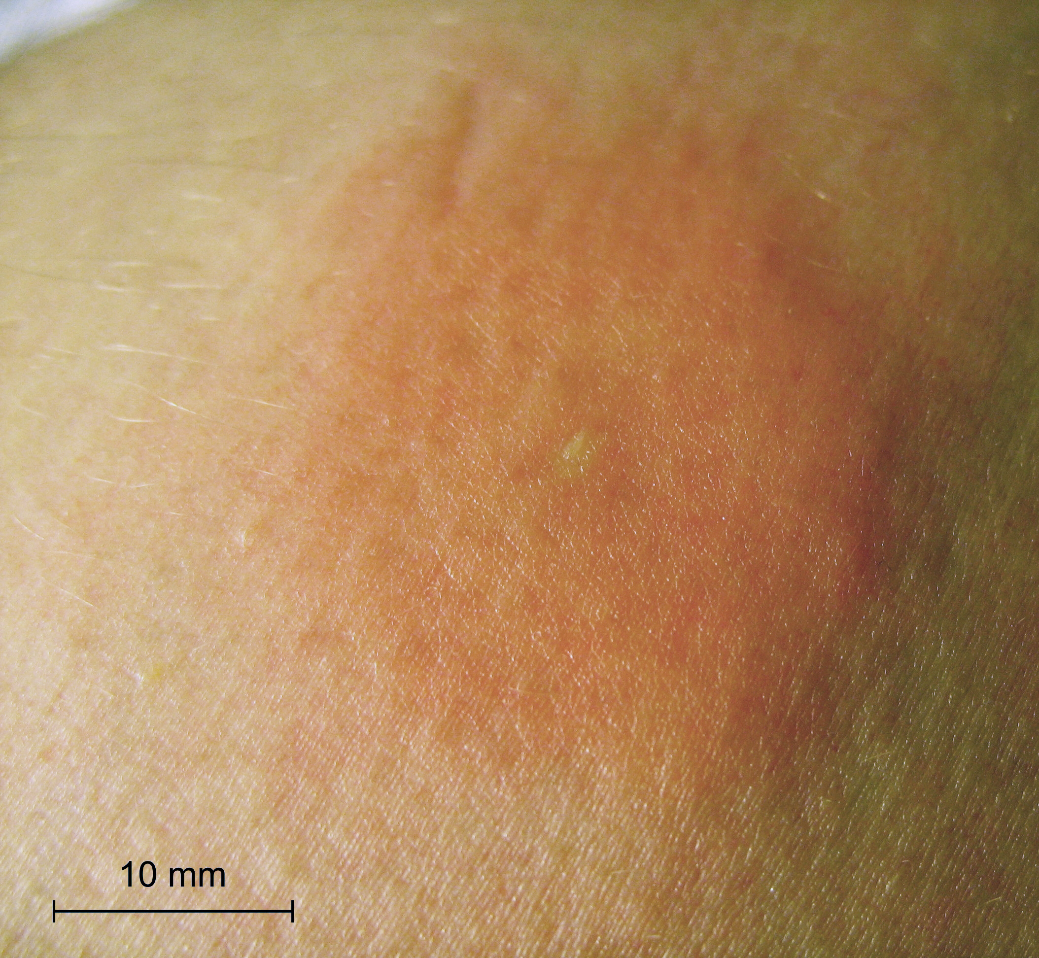 A sting of a black bee (Apis mellifera mellifera) in the left arm, 1 day after.